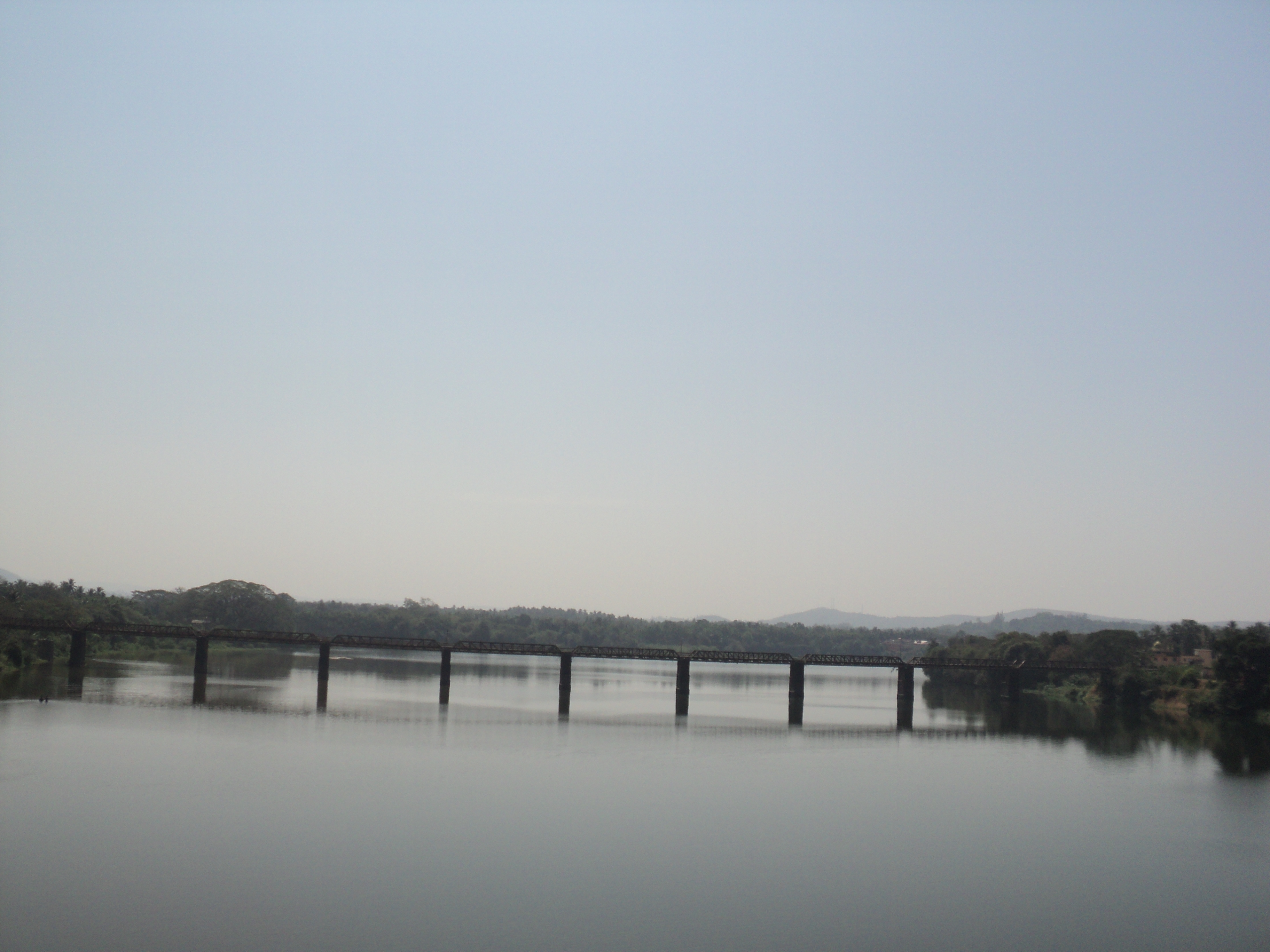 Nathravathi River in Uppina Angadi